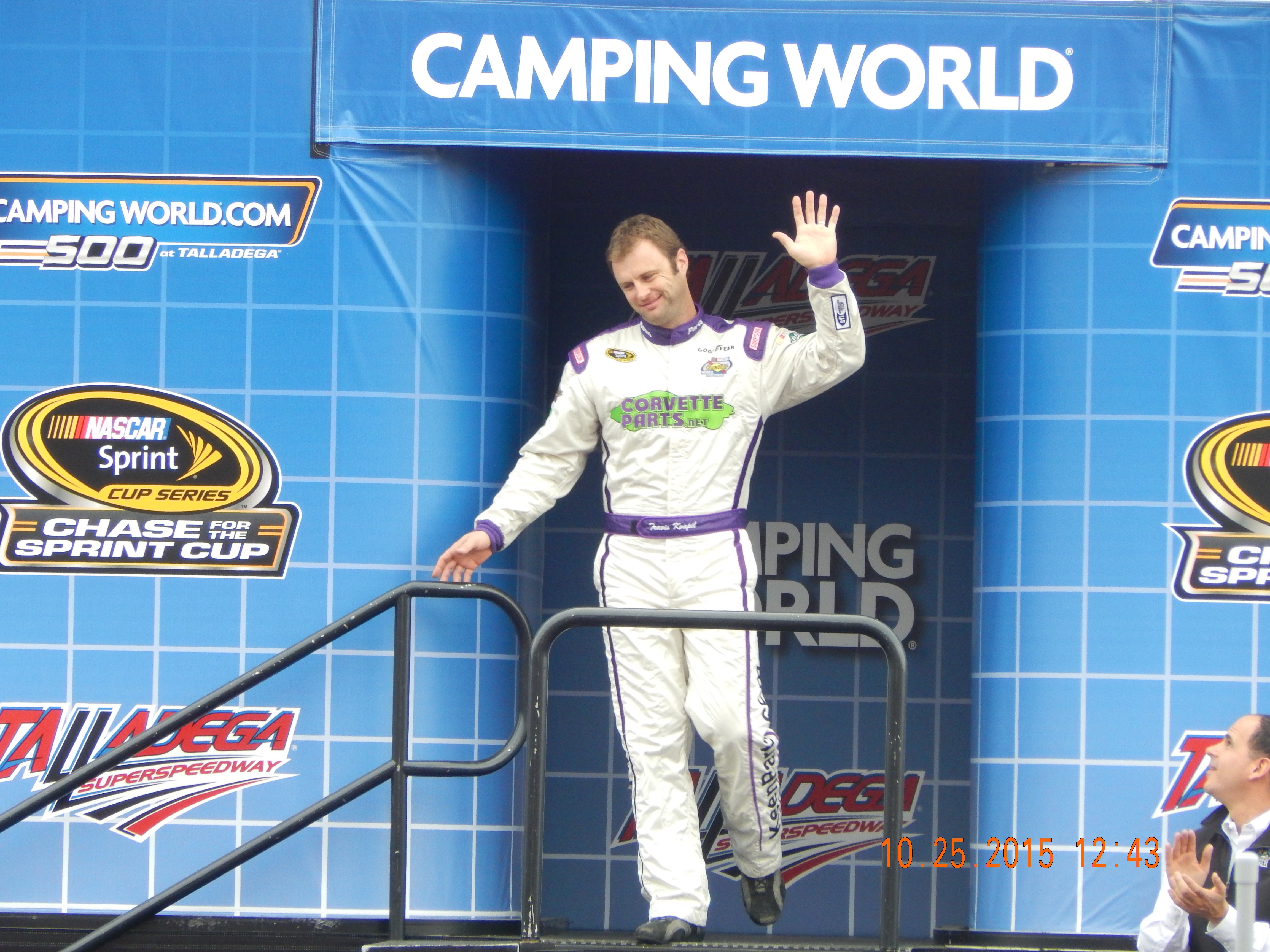 Travis Kvapil being introduced to the crowd at Talladega Superspeedway.